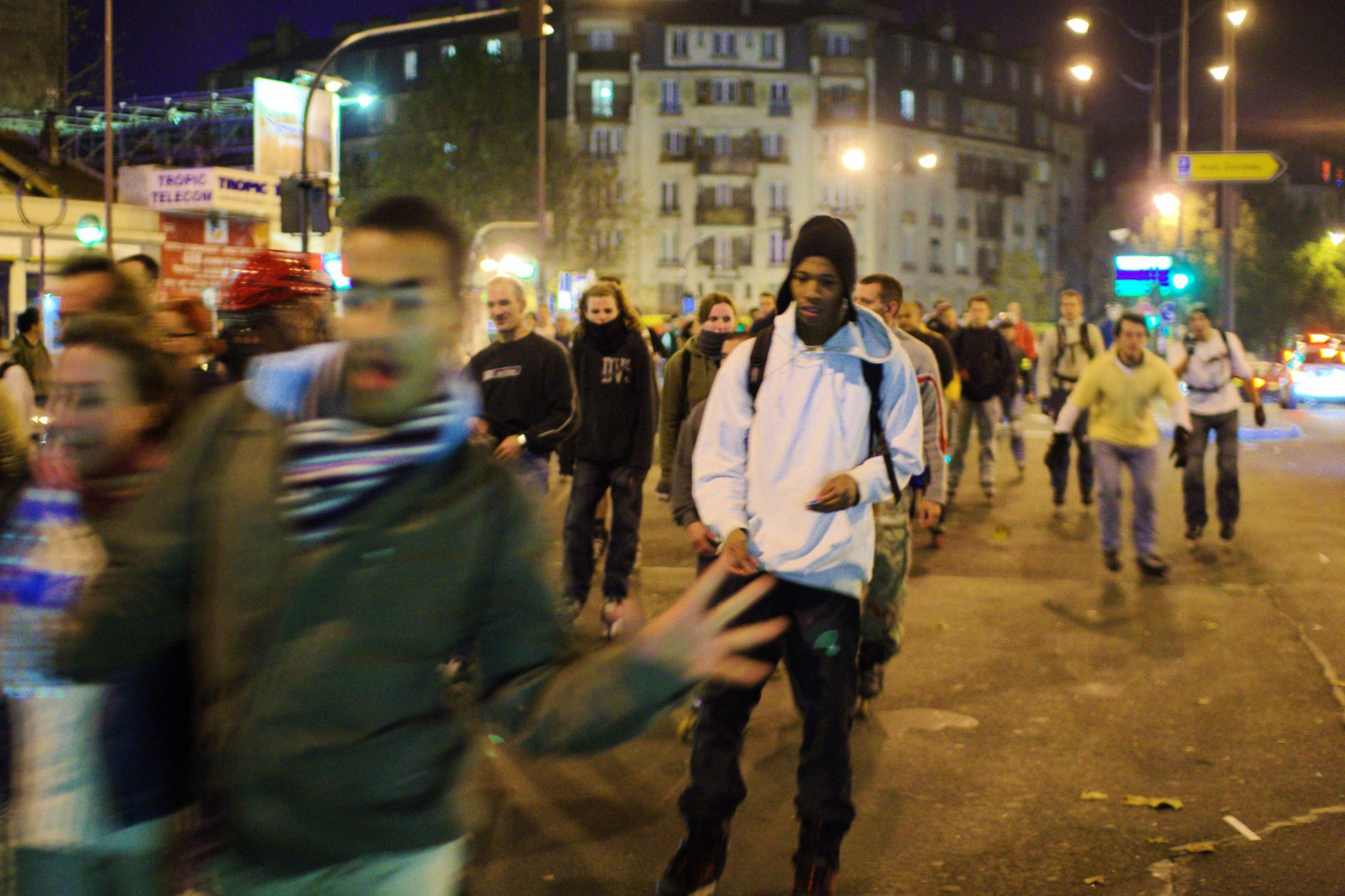 Rollerbladers participating in the "Pari Roller" friday night skating. Picture taken around midnight at the Porte de Clignancourt.